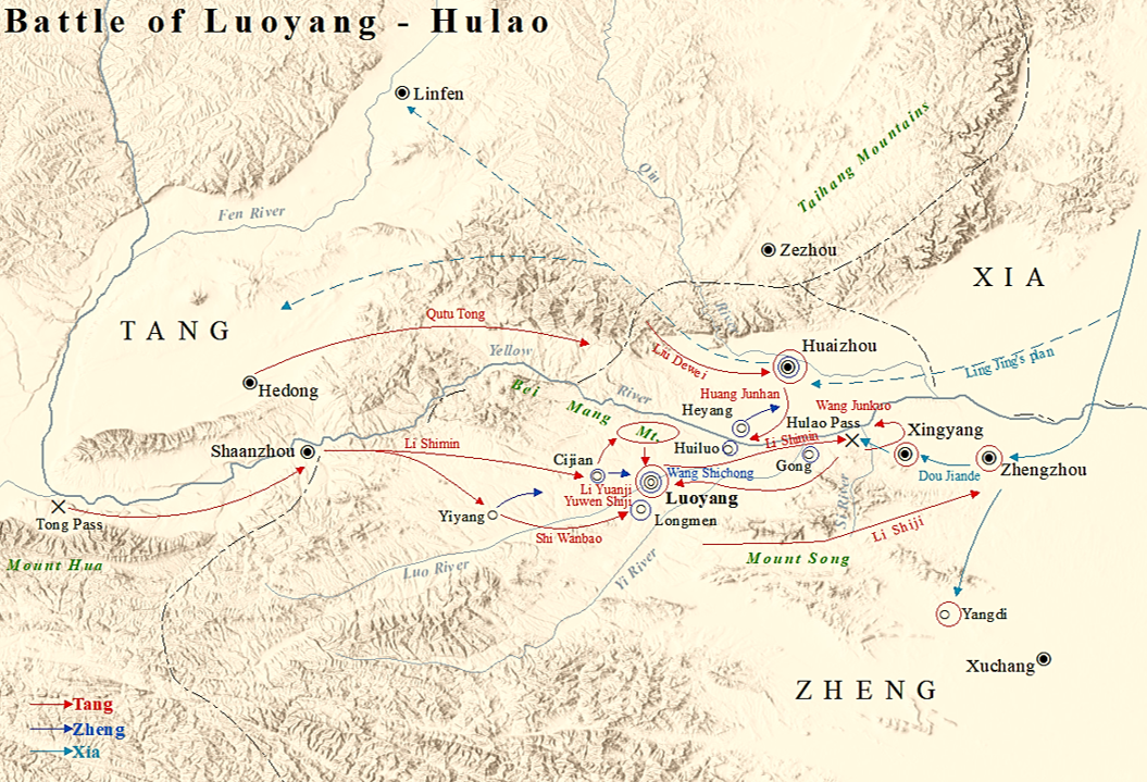 Battle of Luoyang-Hulao in 621 AD during which Tang dynasty defeated two of its rivals, Wang Shichong and Dou Jiande, during its unification of China Proper.